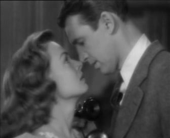 Donna Reed and James Stewart in the American film It's a Wonderful Life (1946). The film lapsed into the public domain in the United States due to the failure of National Telefilm Associates, the last copyright owner, to renew. See film article for details.